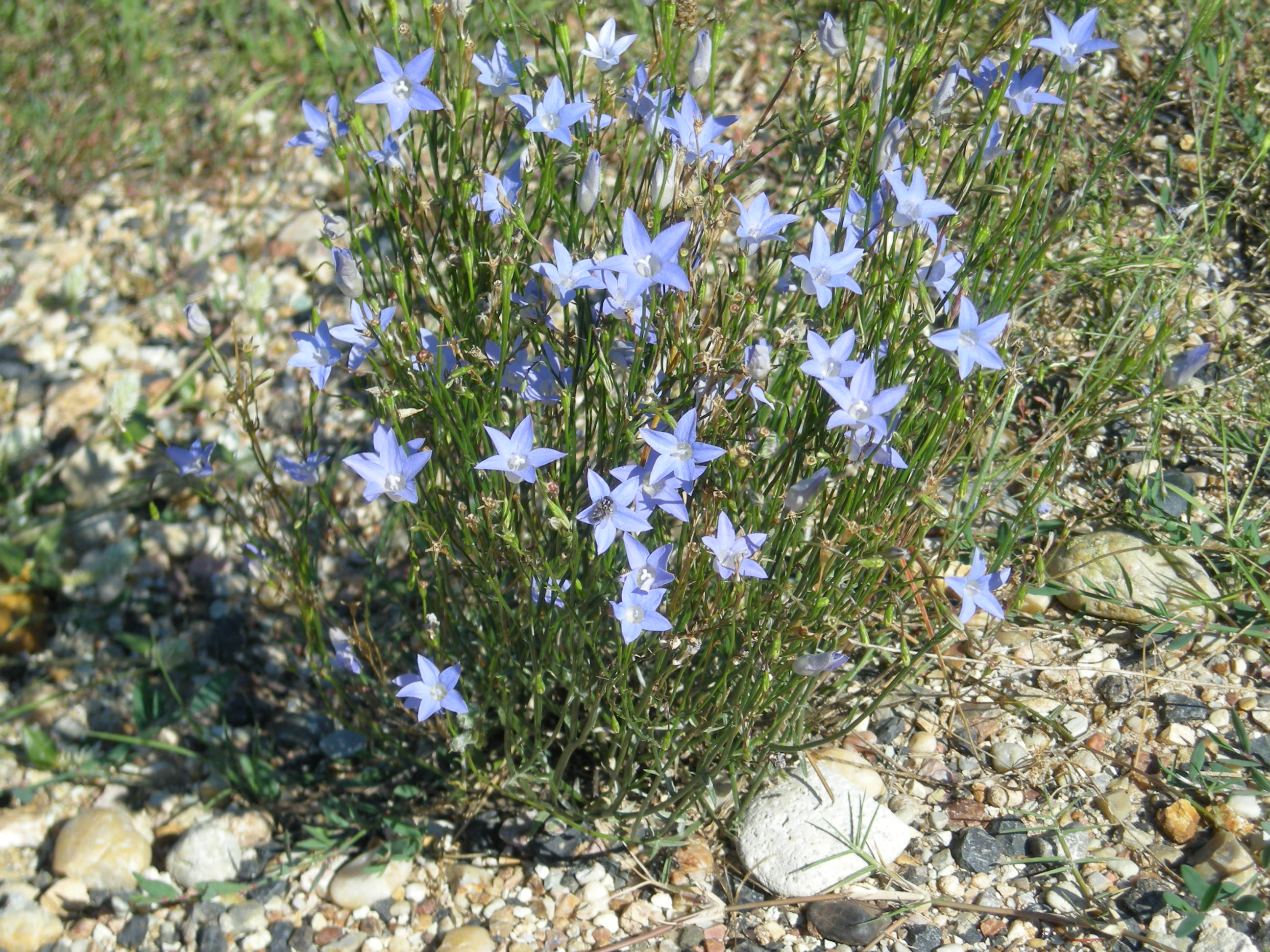 Native, cool season to yearlong green, perennial, hairless to sparsely hairy, tufted herb, 5–75 cm tall. Leaves are alternate, linear throughout or the lowermost oblanceolate; margins are entire or with small callus teeth, and glabrous or sometimes lower leaves sparsely hirsute. Flowerheads are cymes. Flowers have 2–6 mm long sepals, a blue corolla with a 4–9 mm long tube and 6–13 mm long lobes, and a 3-fid style which is not constricted. Capsules are obconic or elongated-obconic, 4–9 mm long and hairless. Flowering can occur throughout year, but is mostly in spring. Widespread in open disturbed sites, particularly along roadsides.